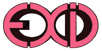 EXID LOGO